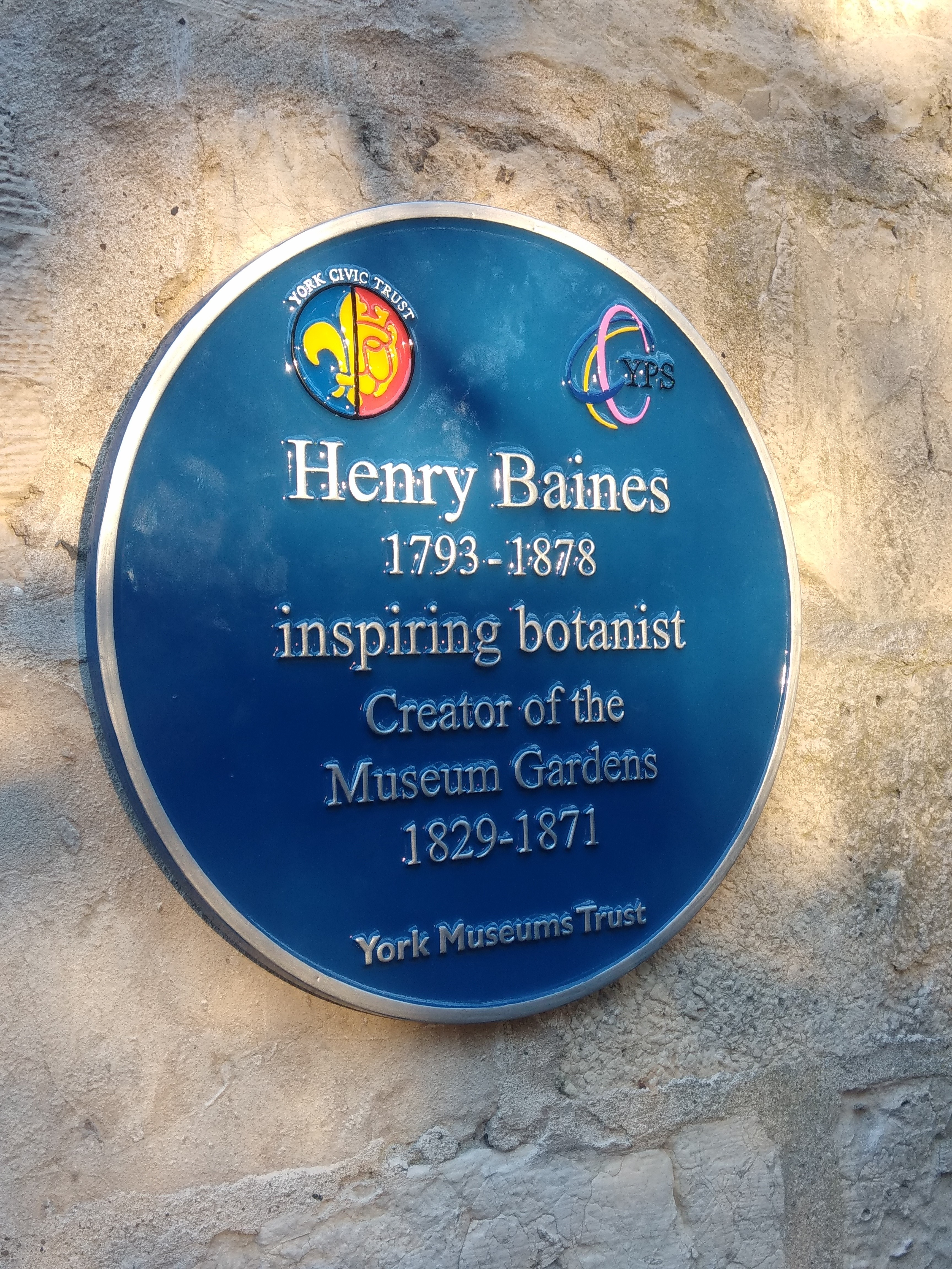 Henry Baines (botanist) plaque, on the side of Manor Cottage, York Museum Gardens. Unveiled on 13/11/12018